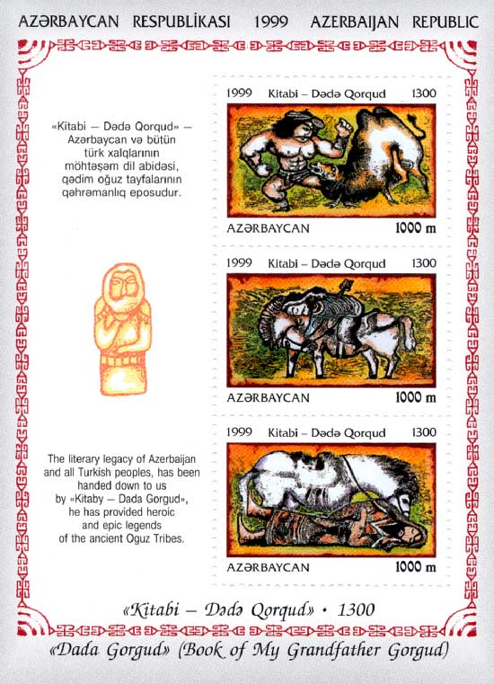 Kitabi Dede Gorgud (Book of Dede Korkut).